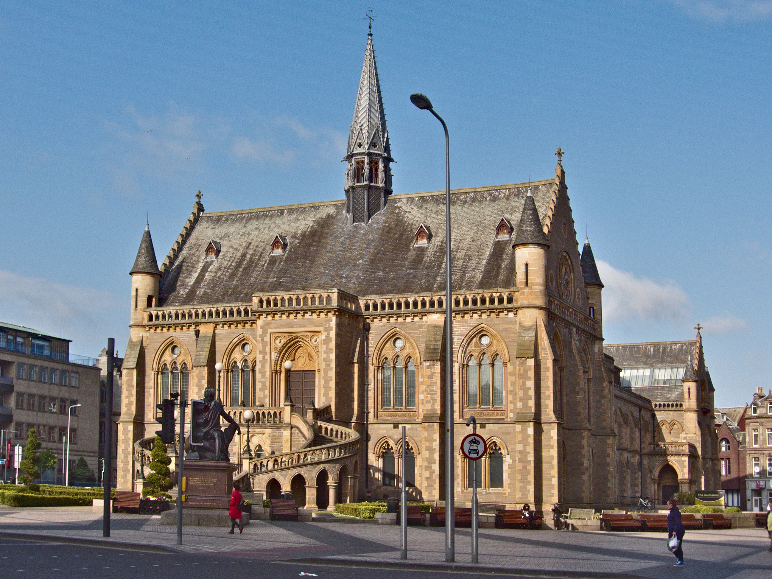 McManus Galleries, Dundee, 2017